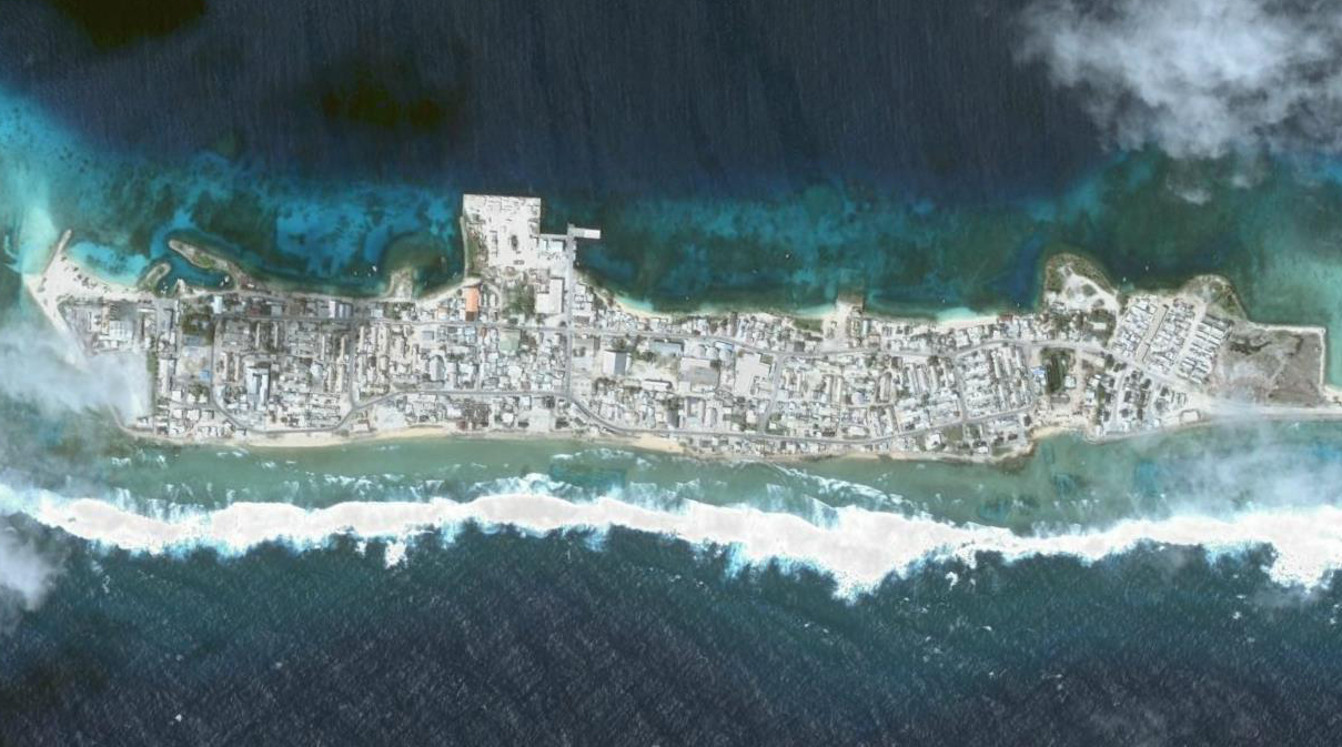 Ebeye Island in Kwajalein Atoll - NASA NLT Landsat 7 (Visible Color) Satellite Image